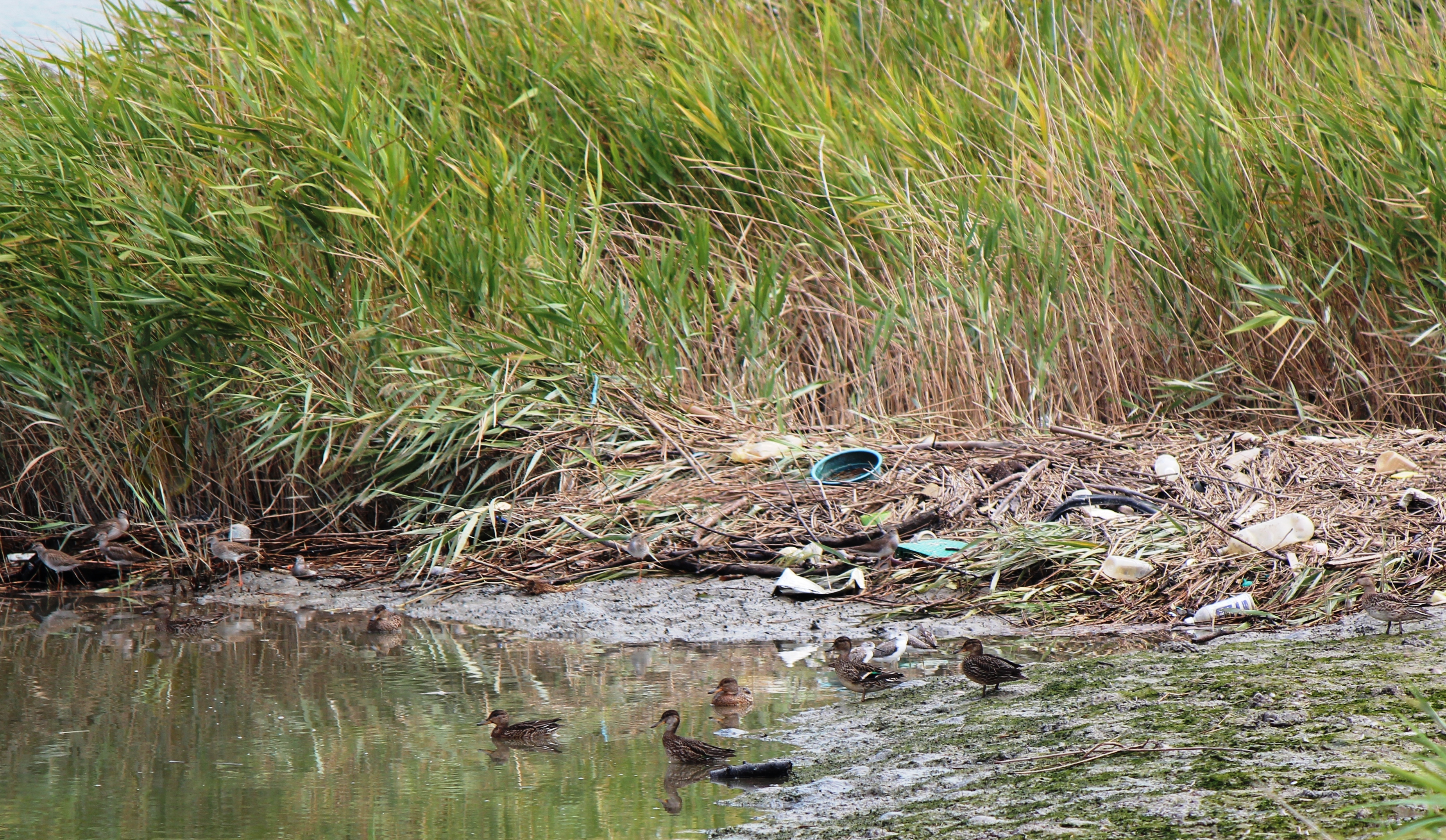 Birds and trash in Shōnai River